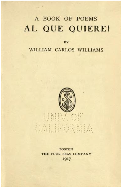 Pag. 7 of Al Que Quiere by William Carlos Williams